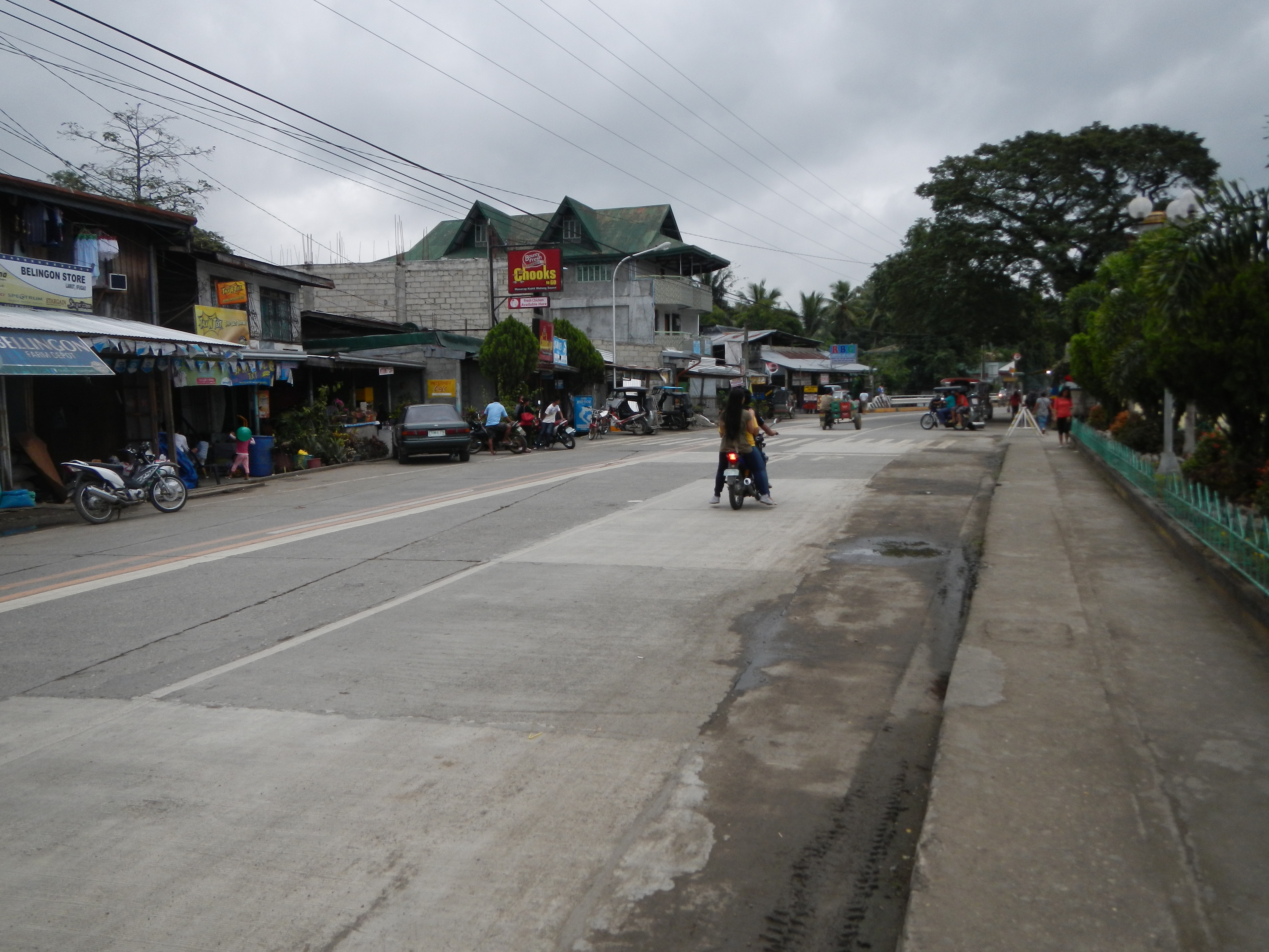 Upload Wizard photos of the -- (general description of landmarks, town, church) - the Town Hall facade and Complex Compound of Lamut, Ifugao [1].[2] including its offices, Sangguniang Bayan Sesssion Hall, Police station, Public Market beside it, the Eagle statue, along the Ifugao-Mt. Province Road - downtown, Town Proper.